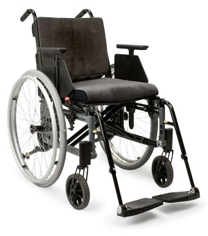 Wheelchair Etac Cross